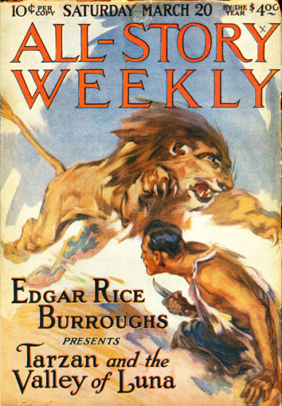 All-Story Weekly, March 20, 1920